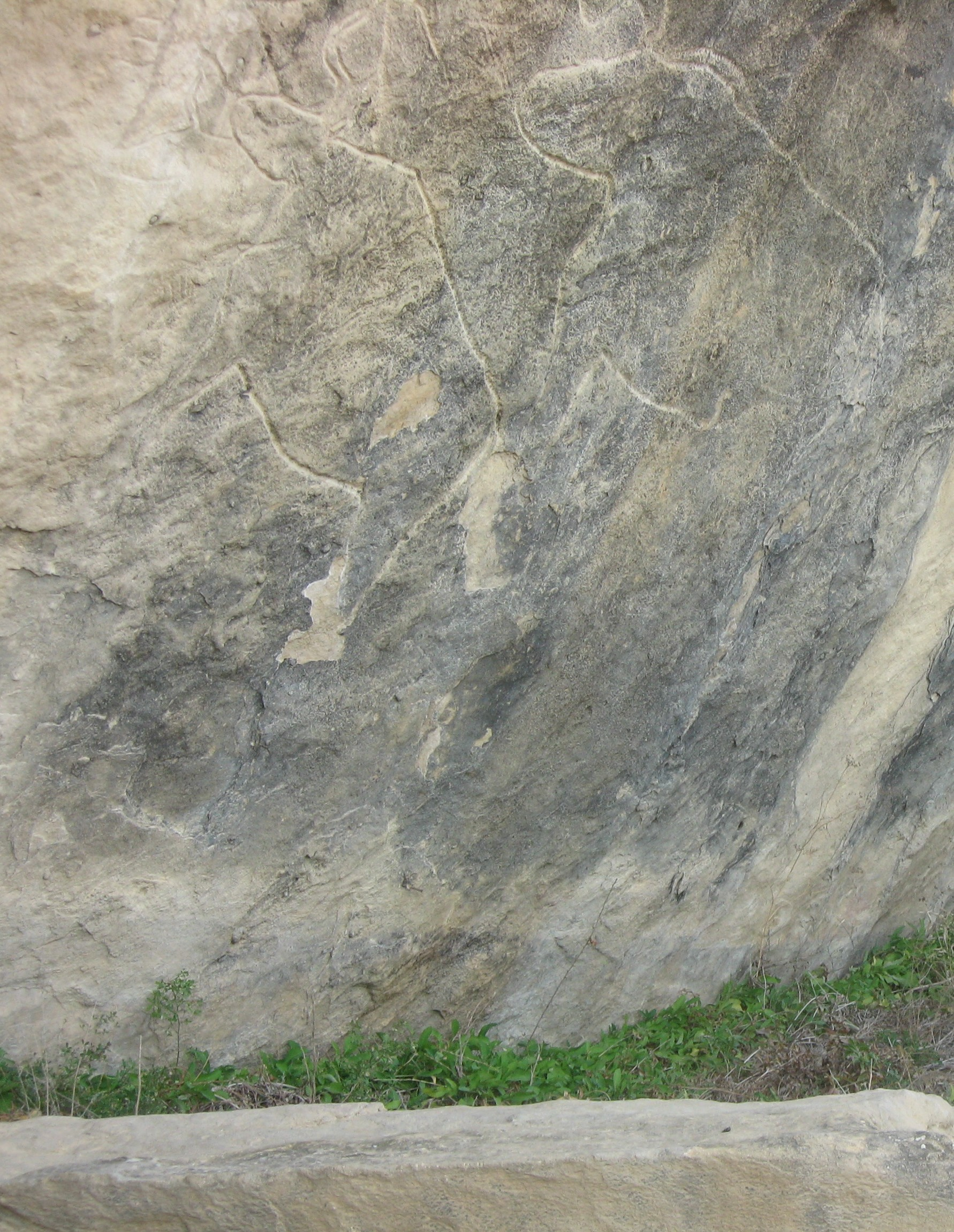 Pictures on rocks in Gobustan State Reserv. Domesticated buffalo (left) and wild buffalo